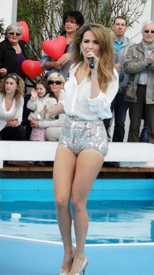 Mandy Capristo at ZDF-Fernsehgarten